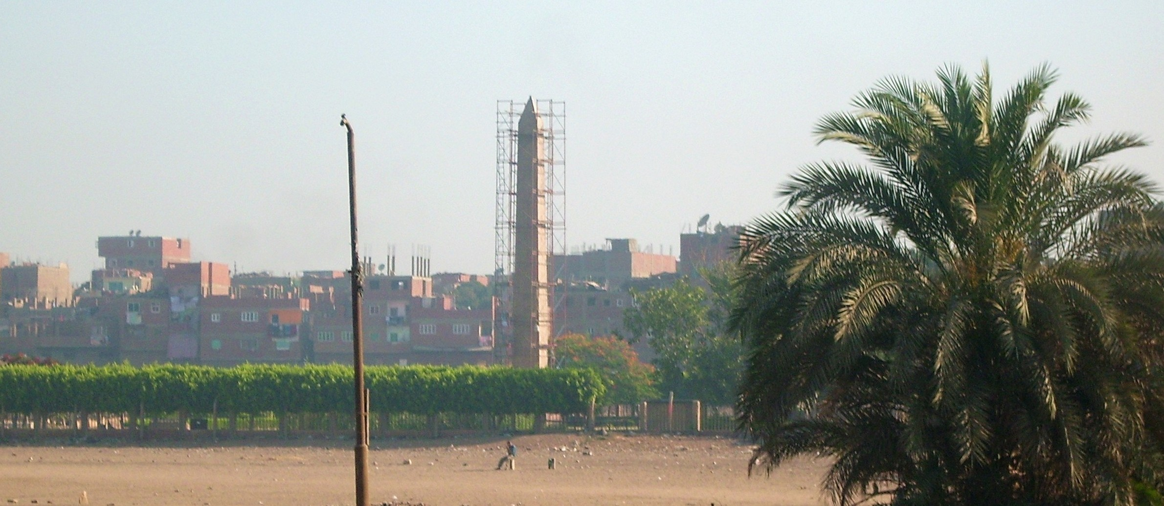 The Oblisk (Masalla) of Senusert I of Heliopolis